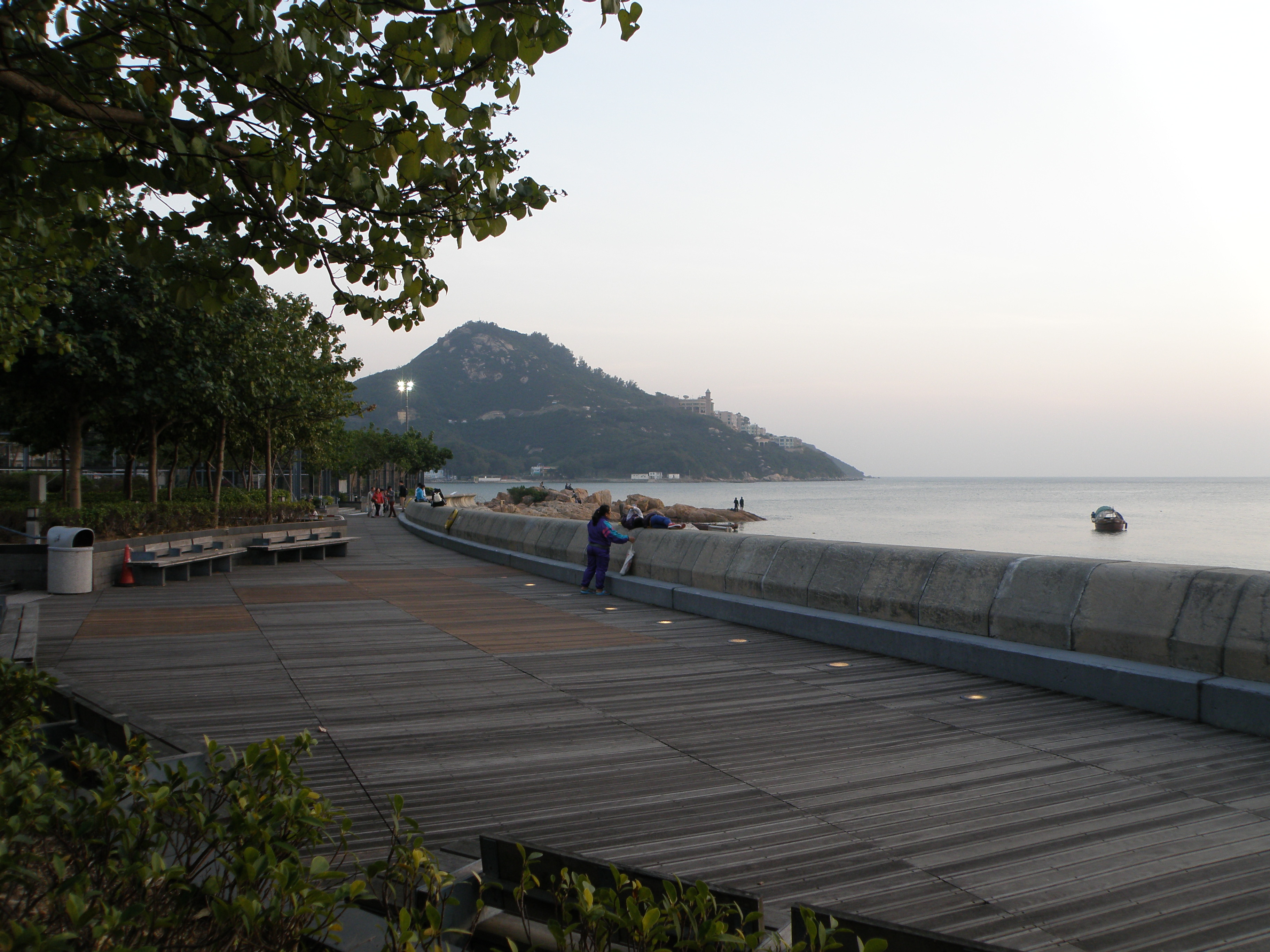 Stanley Promenade in Stanley, Hong Kong.